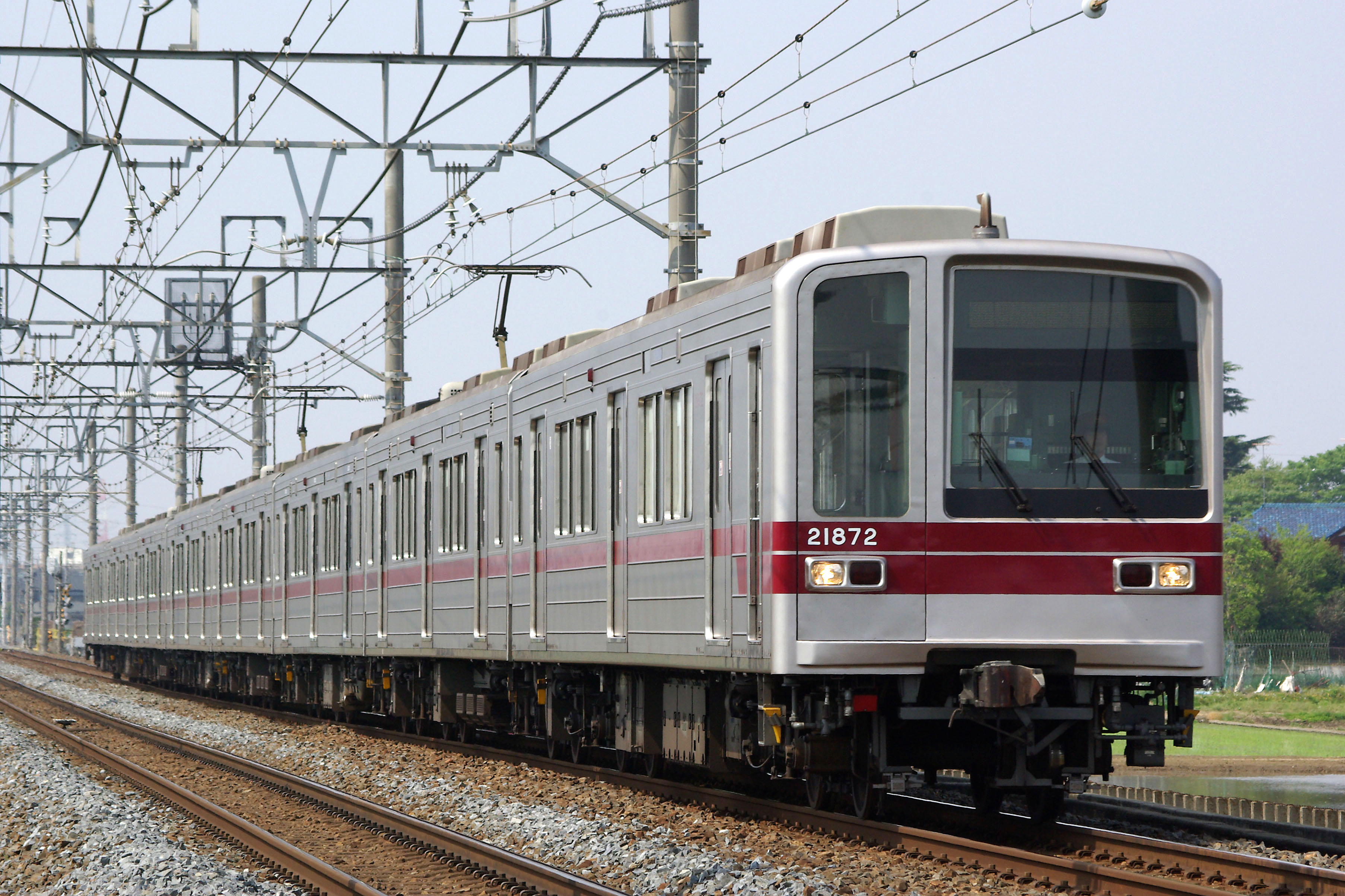 Tobu Railway 20070 series EMU set 21872 between Himemiya and Tobu-Dobutsukoen stations on the Tobu Isesaki Line